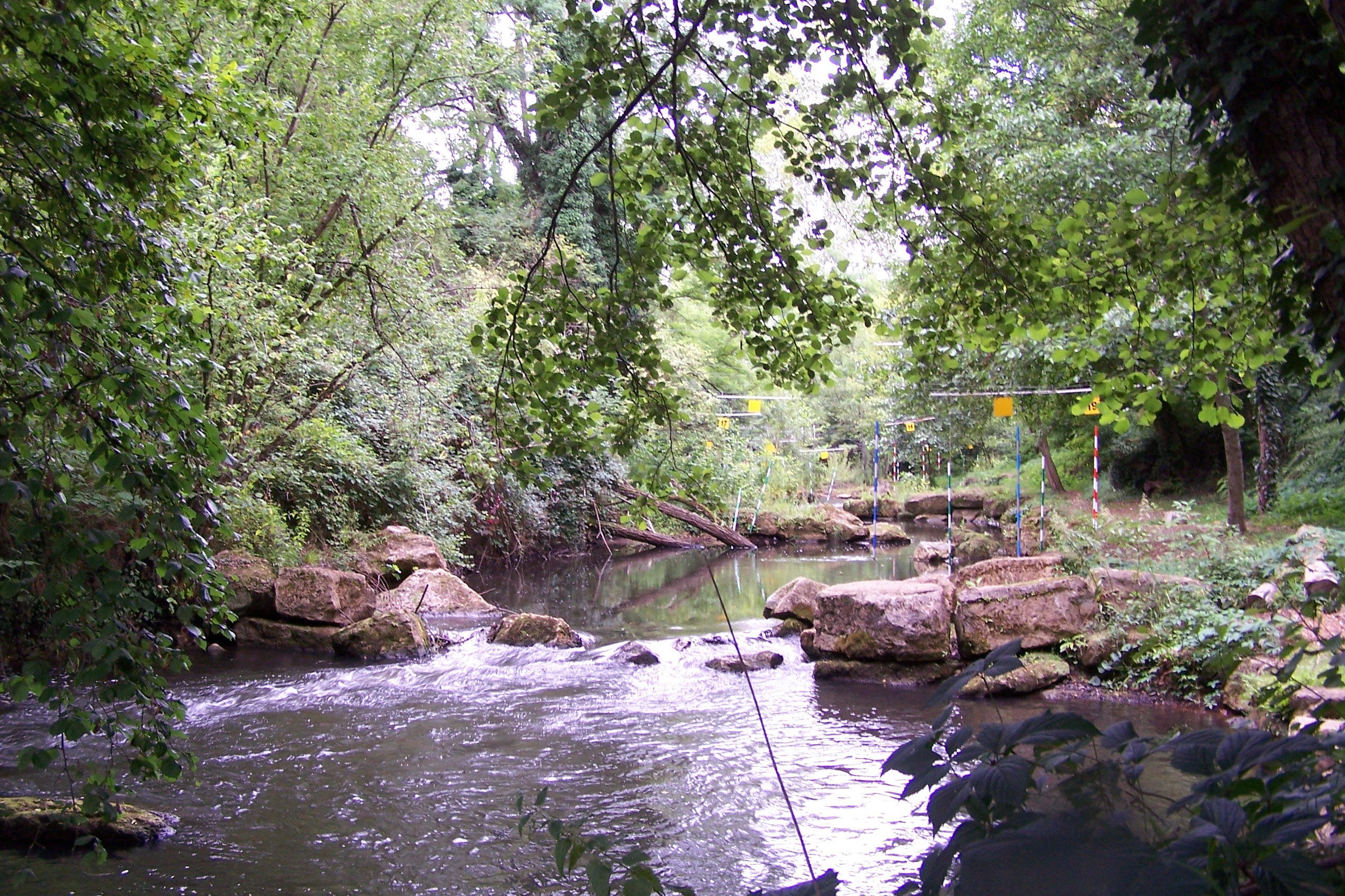 The Ciron river in Bernos-Beaulac (Gironde, France)